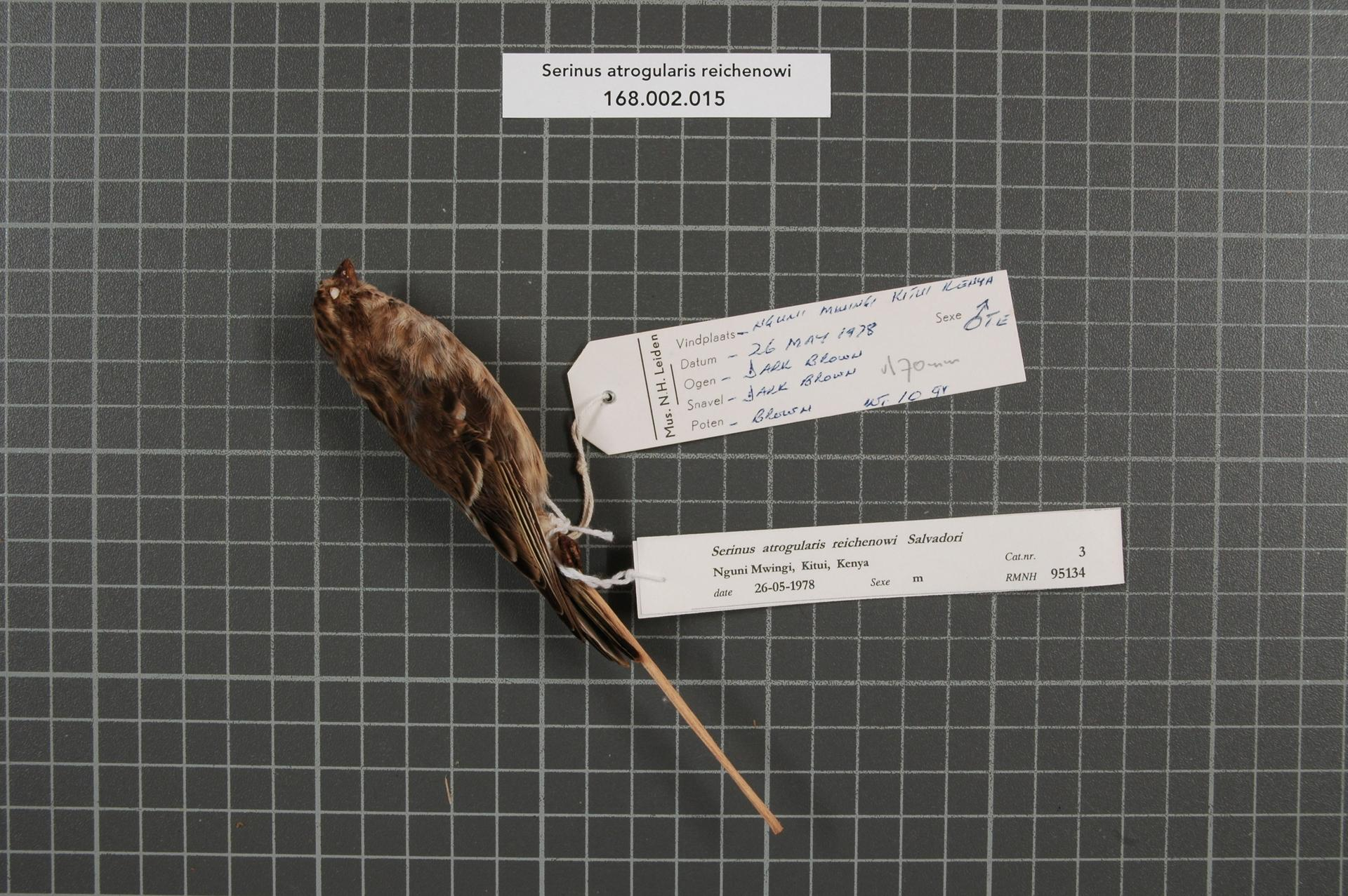 Serinus atrogularis reichenowi Salvadori, 1888